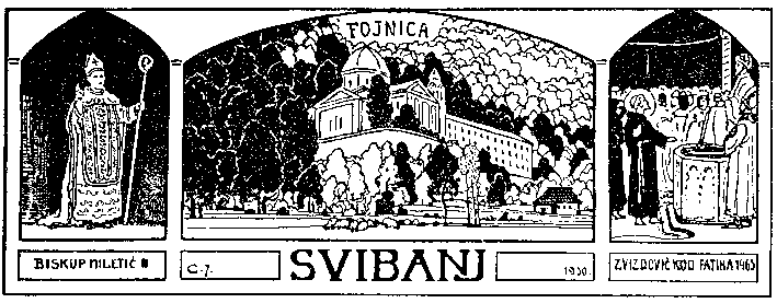 Croatian Catholic calendar in Bosnia and Herzegovina, 1930. Fojnica